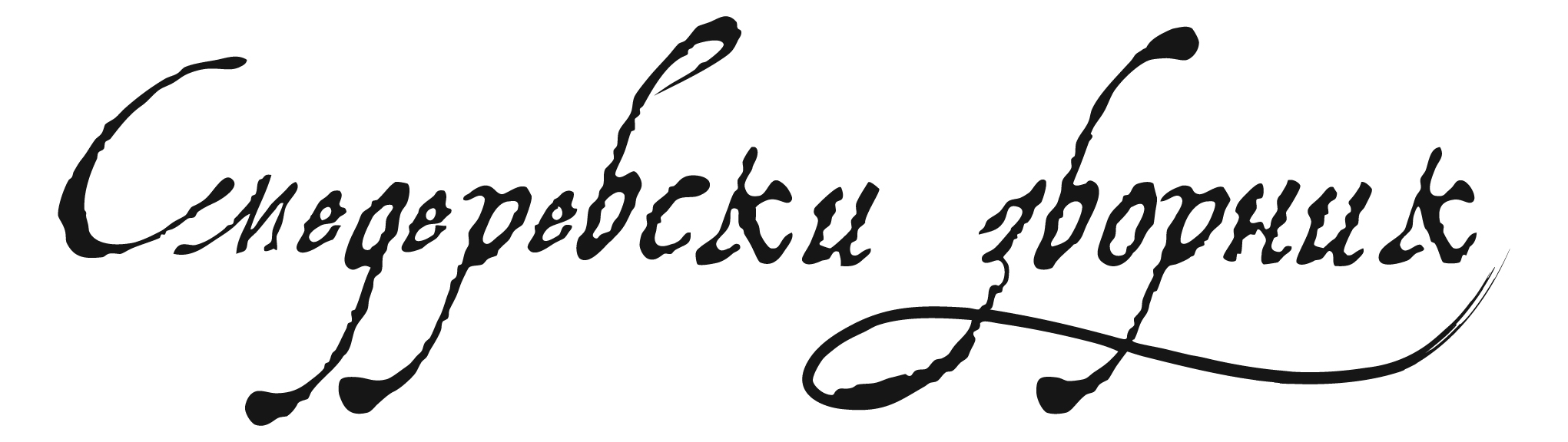 Logo of the Smederevo periodical